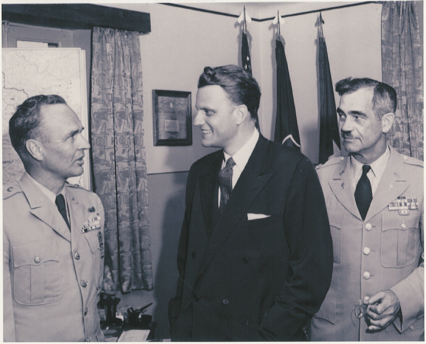 Bogardus Snowden Cairns hosting Billy Graham at Base Section Headquarters, La Rochelle, France, ca. 1955.